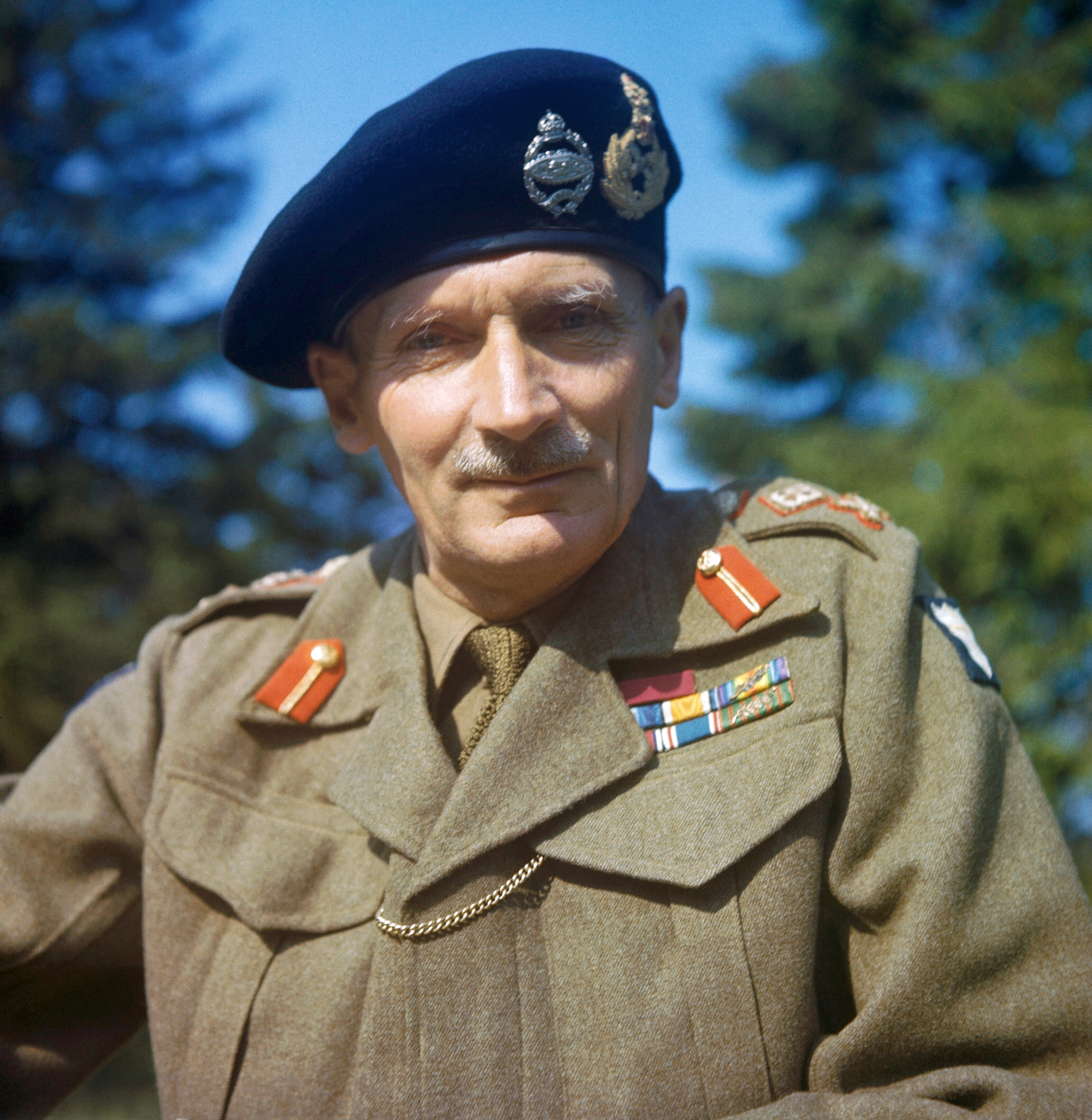 General Sir Bernard Montgomery in England, 1943 Half-length portrait of the Commander of the Eighth Army General Sir Bernard Montgomery taken during a visit to England.